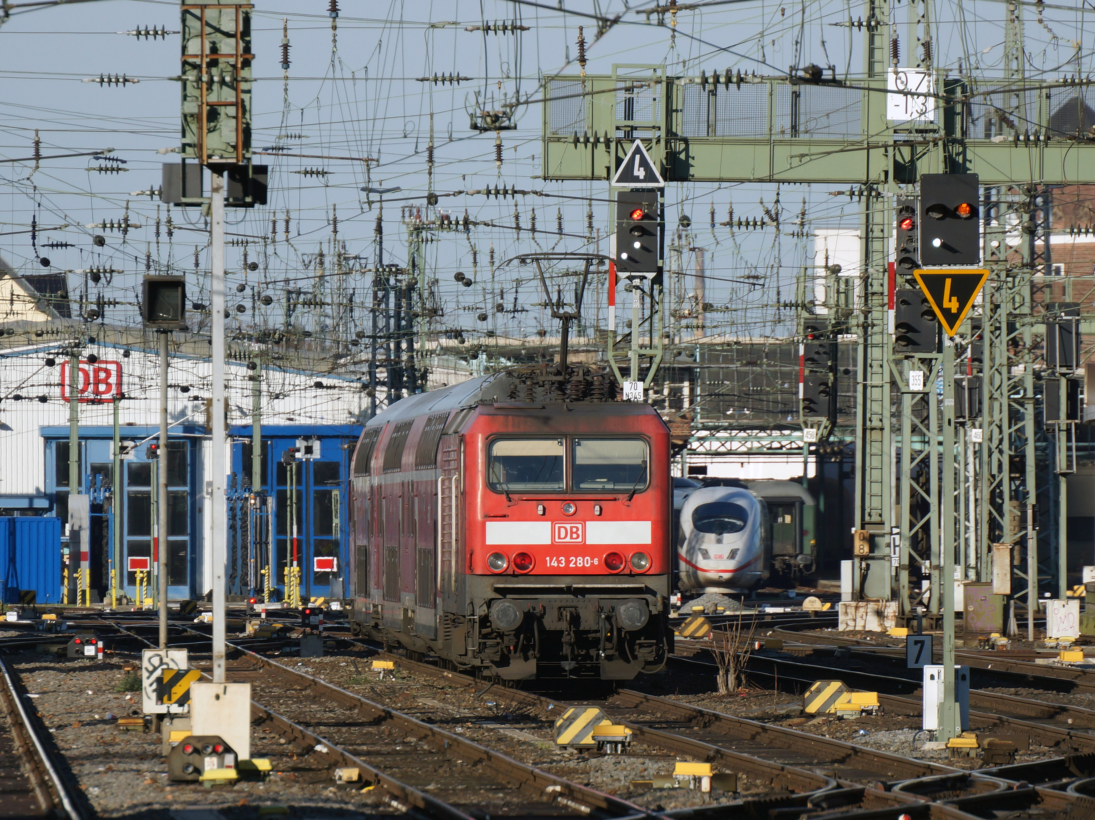 DBAG 143 280-6 in the near of Cologne main station.